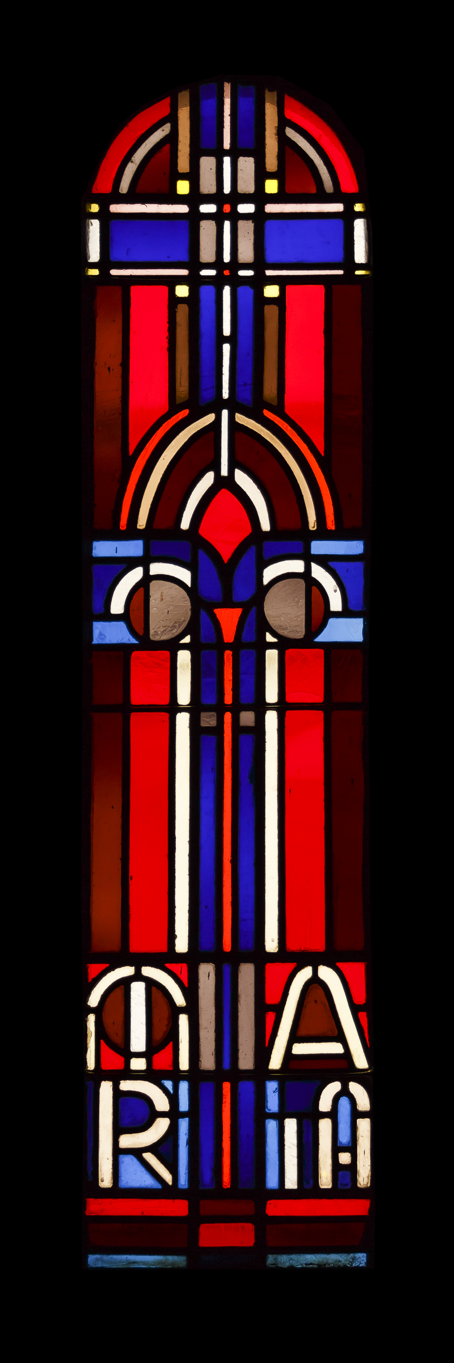 Essen, Germany: Stained glass window upon the draft of Sr. M. Franziska Wüsten (1955). The artwork was carried out by the glass artist Ursula Graeff-Hirsch. Symbol of the cross and the characters "MARIA" as second part of "AVE MARIA" (The characters "AVE" are depicted in the neighboured stained glass window). It is located in the south west side of the nave under the organ loft.